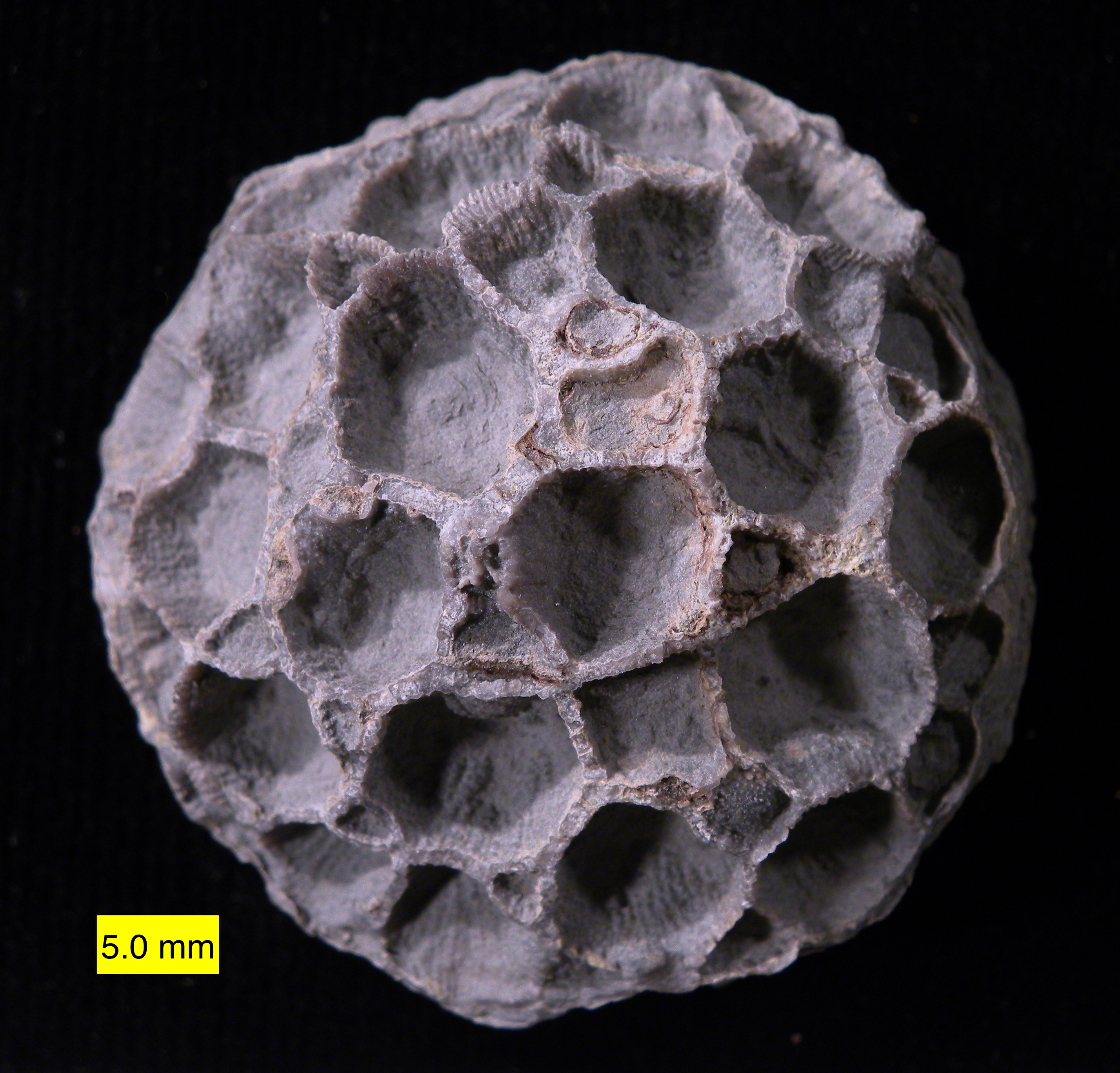 Pleurodictyum americanum Roemer from the Kashong Shale (Hamilton Group), Middle Devonian (Givetian) of Livingston County, New York. Specimen collected by Brian Bade.